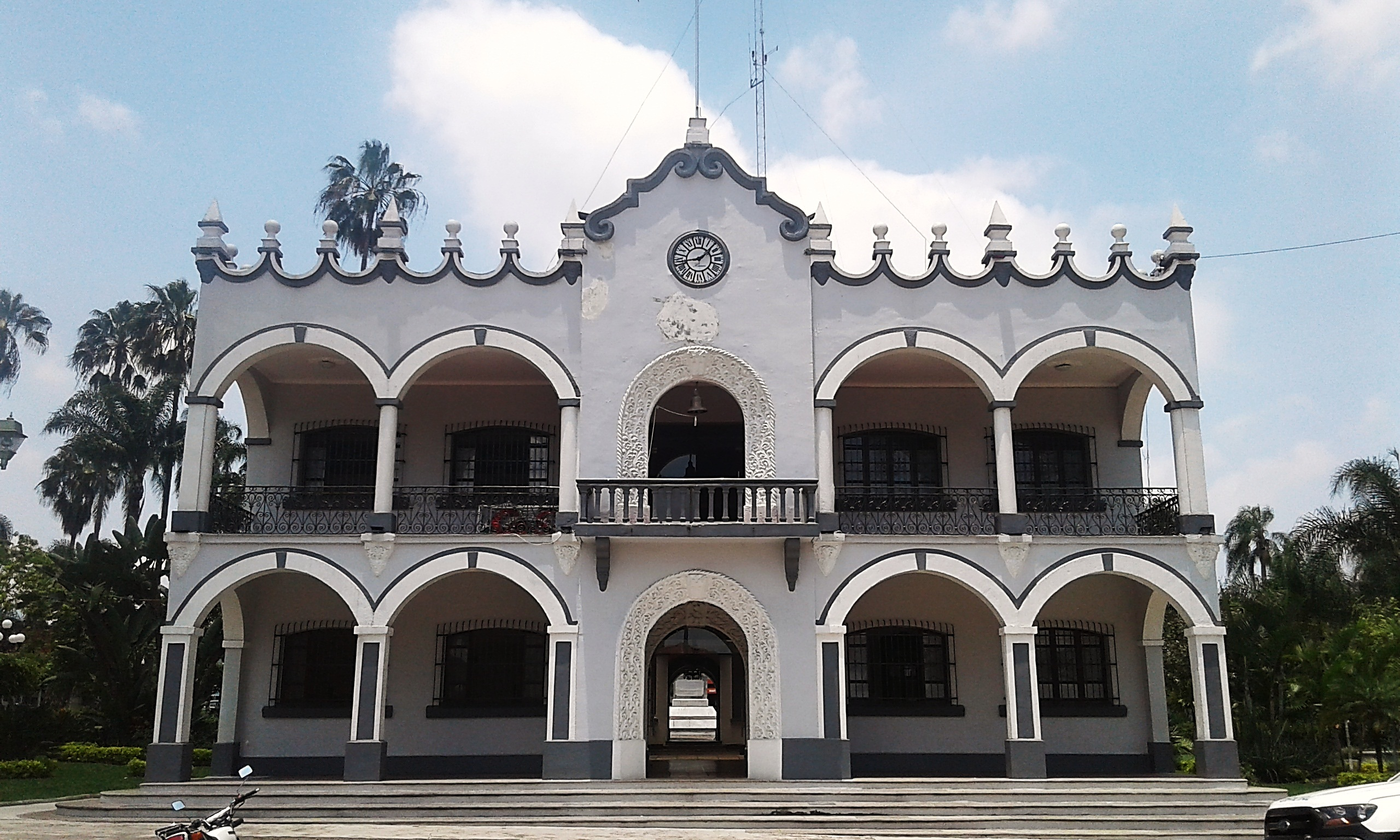 city ​​hall building